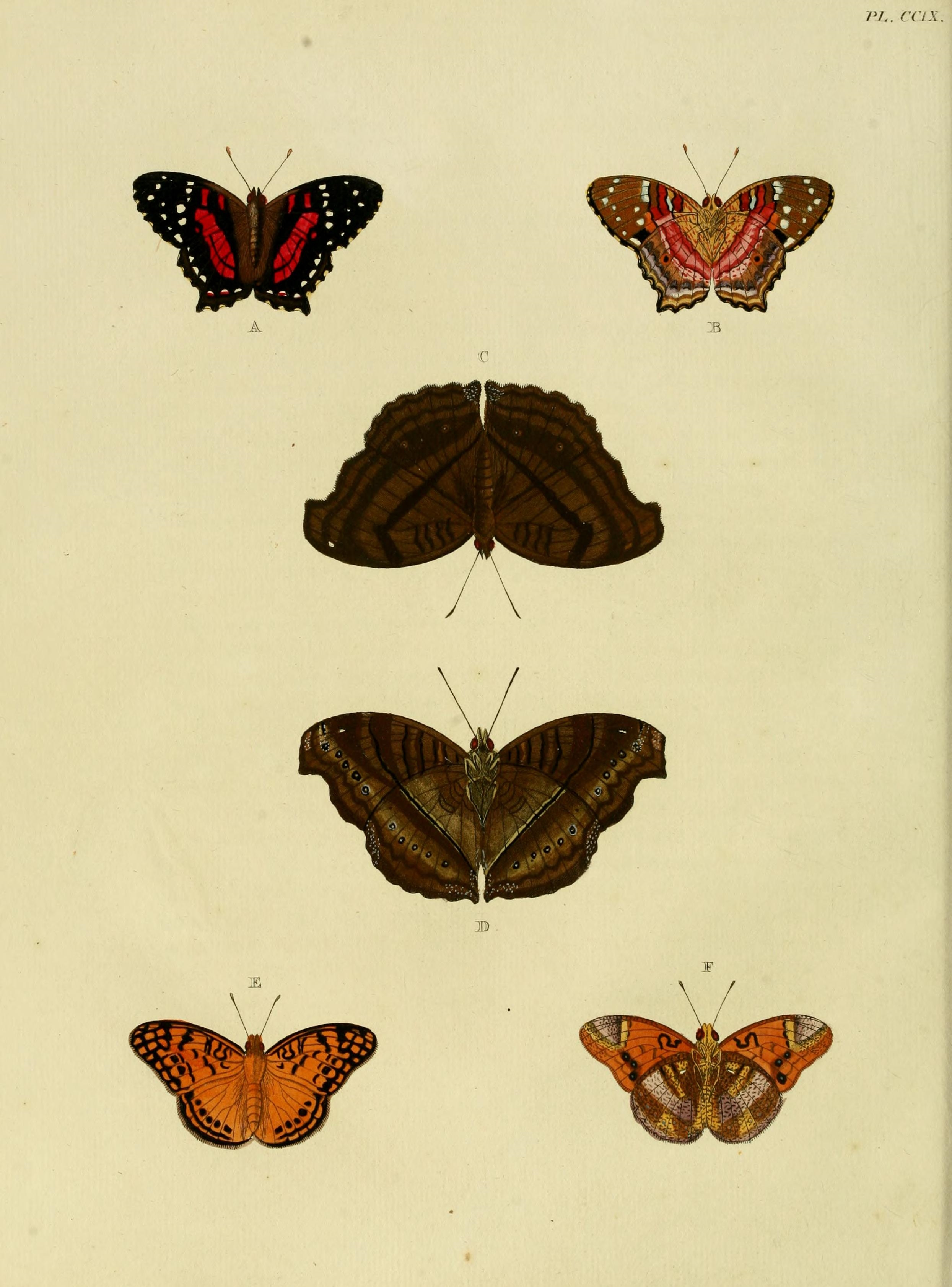 Plate CCIX A, B: "(Papilio) Amalthea"( = Anartia amathea (Linnaeus, 1758)), see Funet. In register as C, D (error). C , D: "(Papilio) Iphita" ( = Junonia iphita (Cramer, [1779]), iconotype?), see Funet. Photos at Barcode of Life. In register as A, B (error). E, F: "(Papilio) Hegesia" ( = Euptoieta hegesia (Cramer, [1779]), iconotype?), see Funet. Also on plate 238 A, B as "(Papilio) Columbina".